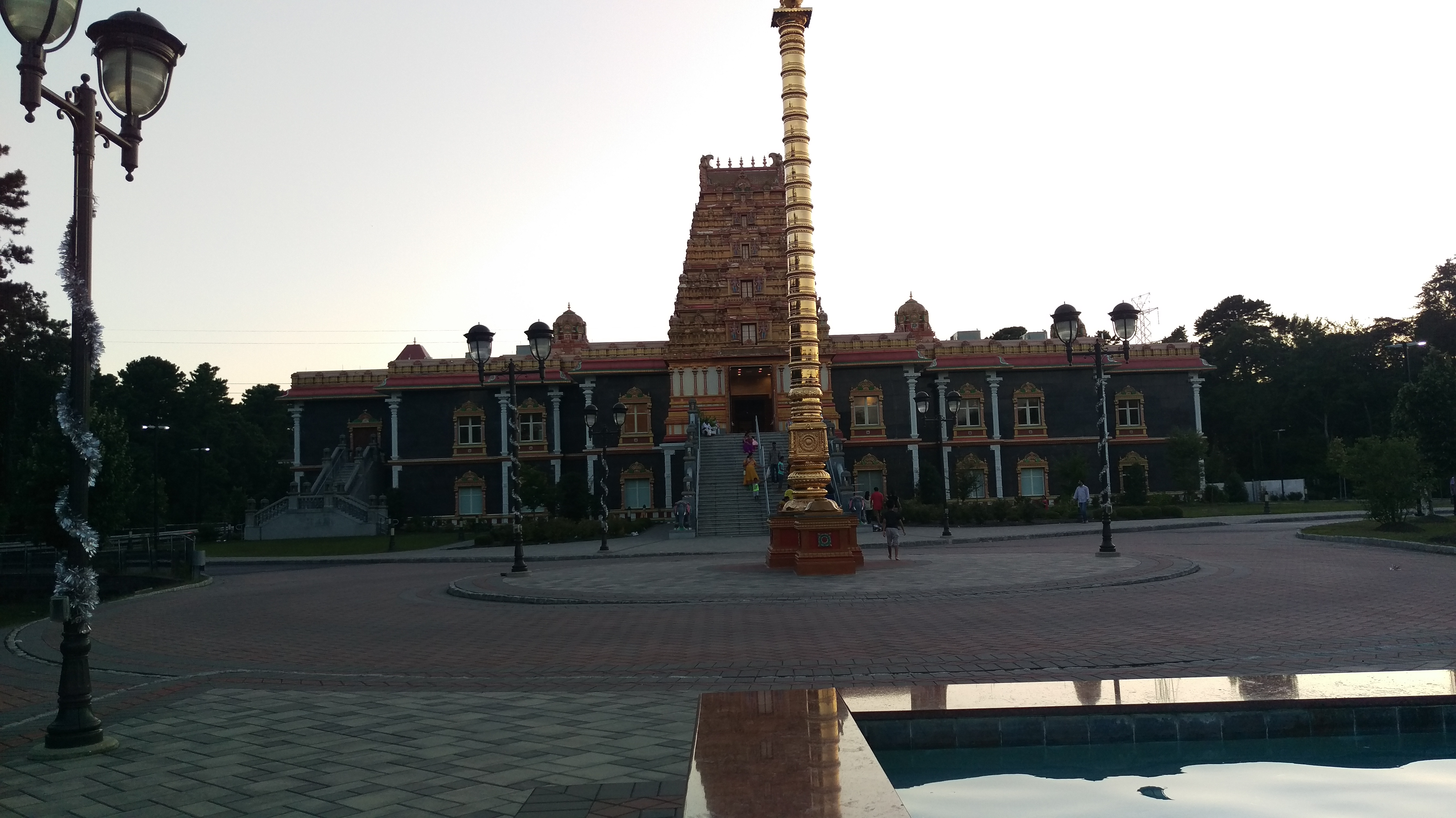 Sri Guruvaayoorappan Temple grounds Morganville NJ